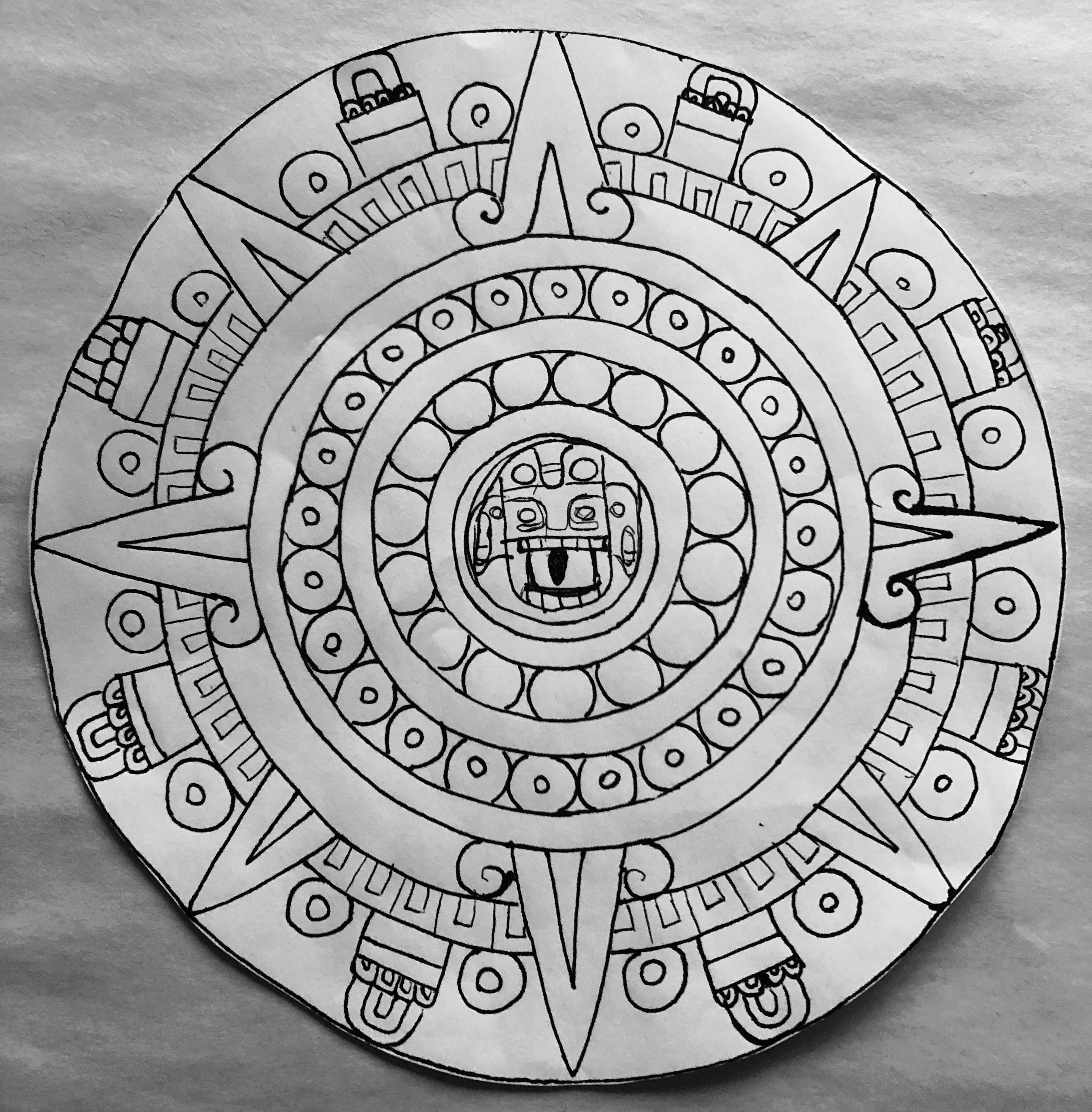 Black and white line drawing of top of stone